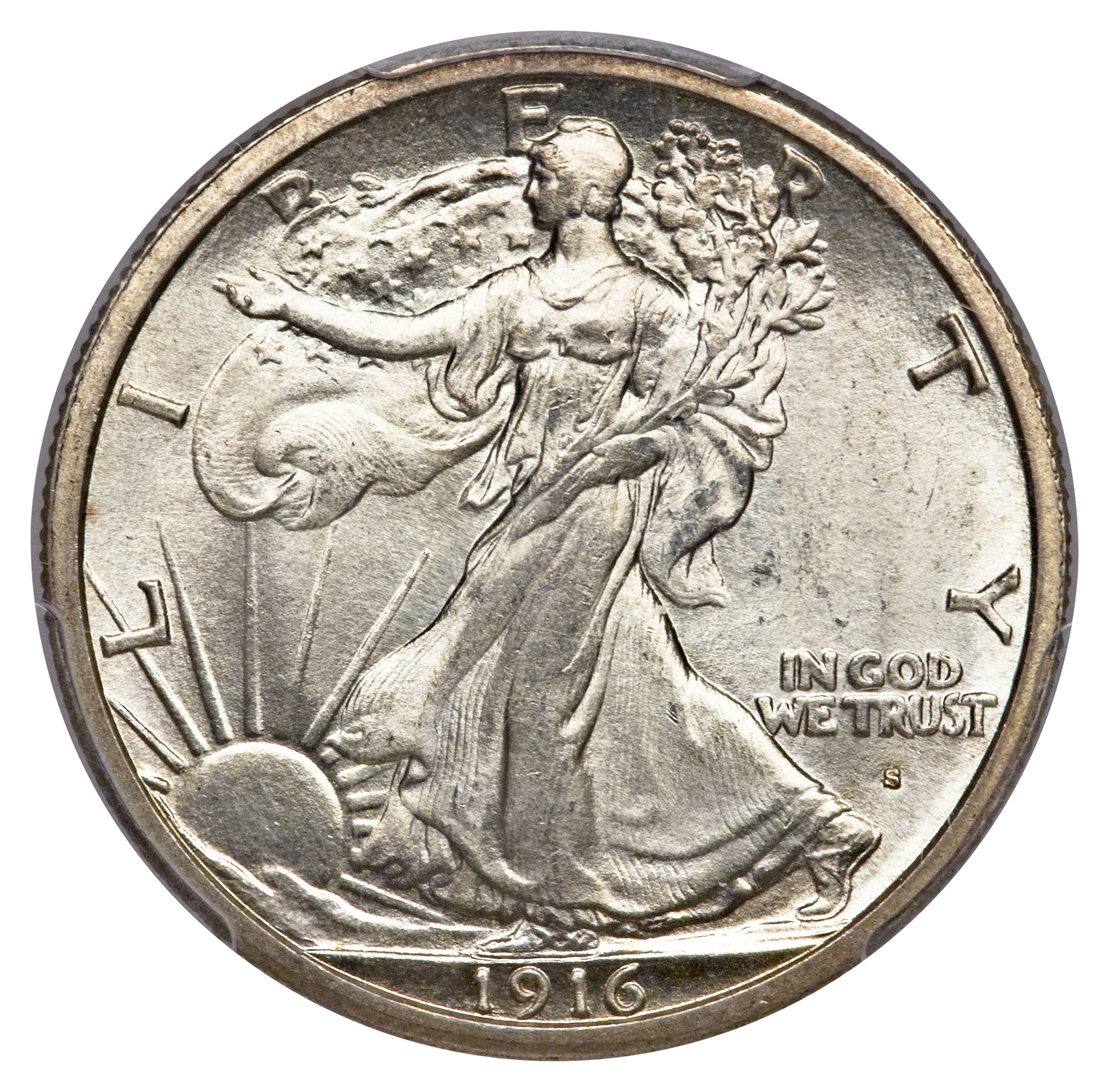 1916-S 50C (obv) (1213-30580)